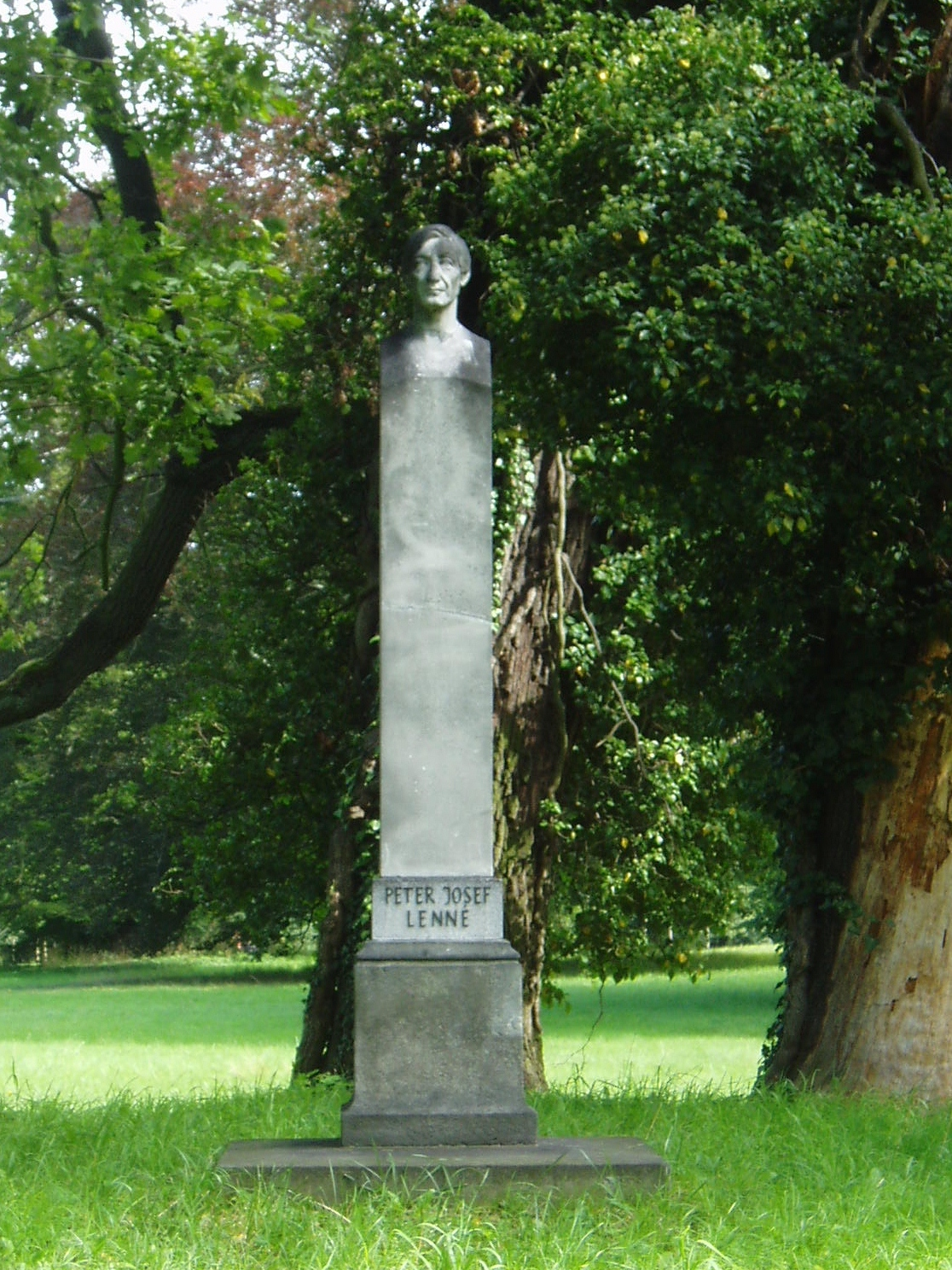 Herme with the portrait of Peter Joseph Lenné, Sanssouci Park, Potsdam, Germany